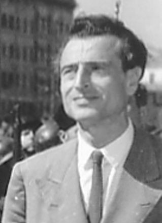 Emmanuel Astier de La Vigerie. Photograph taken on the wharf of Rive-Neuve on the corner with the Cours Jean-Ballard.